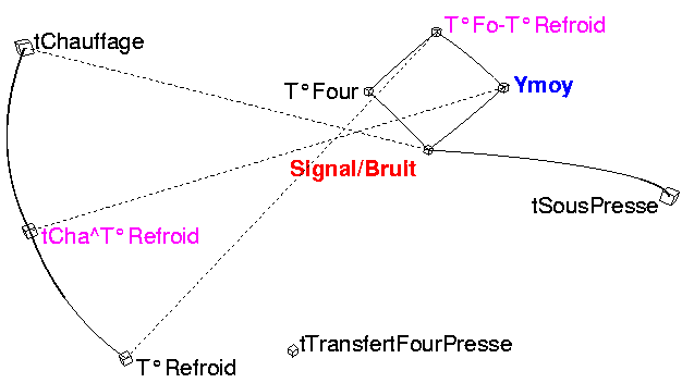 Correlation iconography